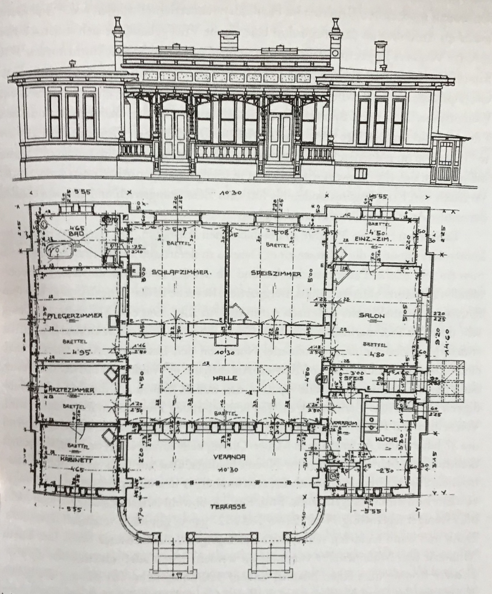 Rothschild Pavillon Mauer, built as a residence of Georg von Rothschild (1877, Vienna–1934, Mauer-Öhling)